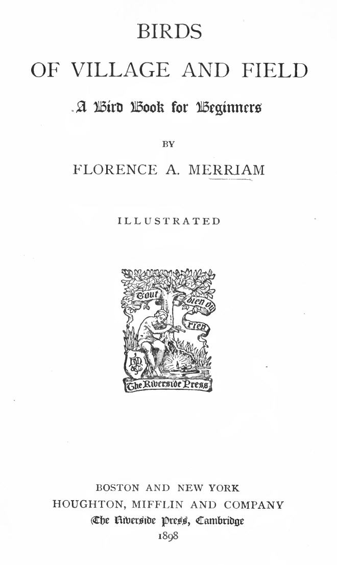 Page from Birds of Village and Field